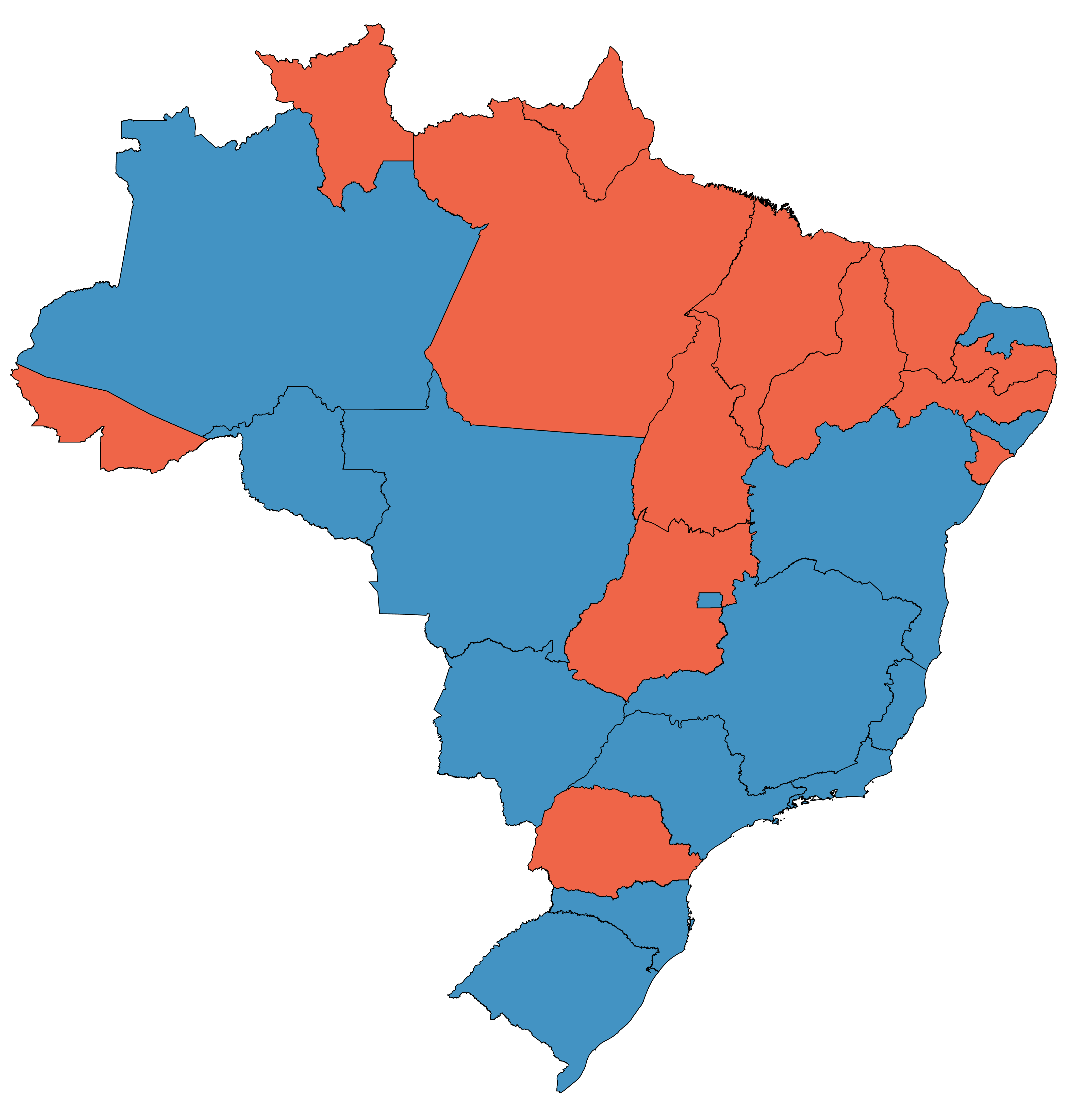 A map of Brazil with its federative units colored according to the etymological origin of their names. Orange indicates indigenous origin, while blue indicates Portuguese origin.